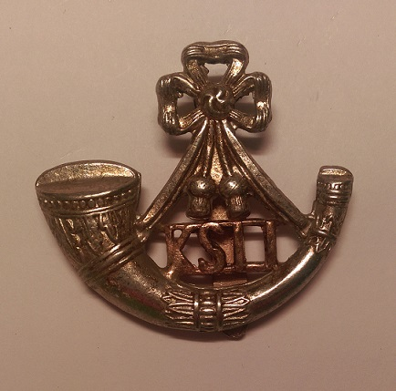 Photo of King's Shropshire Light Infantry Cap Badge from personal collection